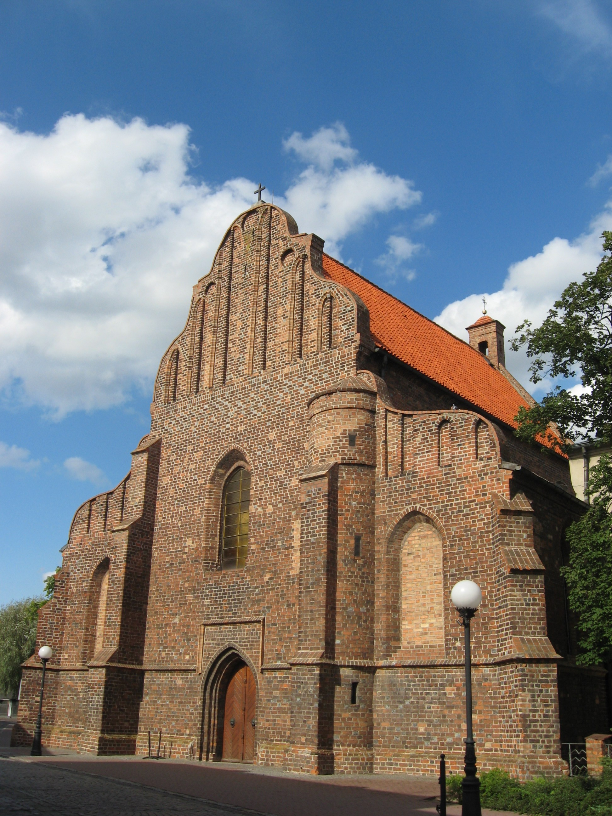 Konin - St Bartholomew's parish church